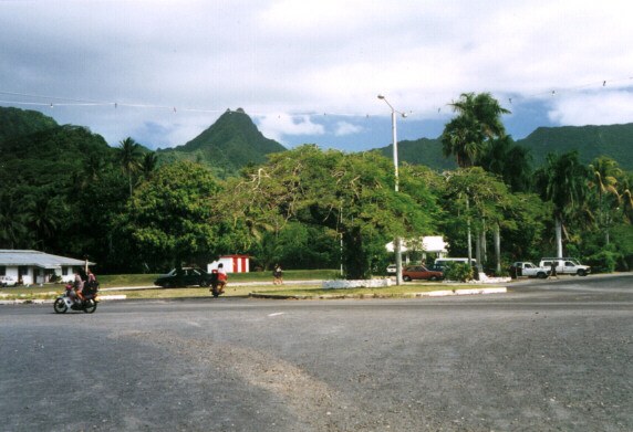 The Avarua roundabout, believed to be the only one in the Cook Islands, Rarotonga.